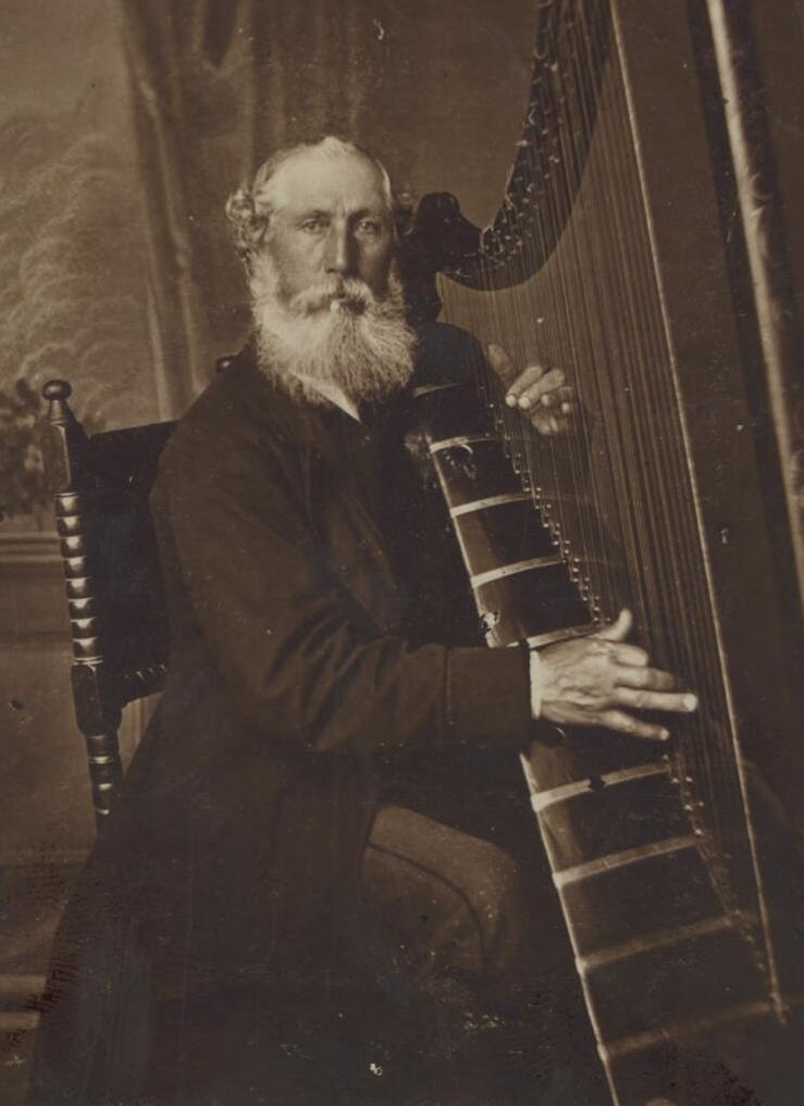 A portrait from the Welsh Portrait Collection at the National Library of Wales. Depicted person: John Roberts – harpist